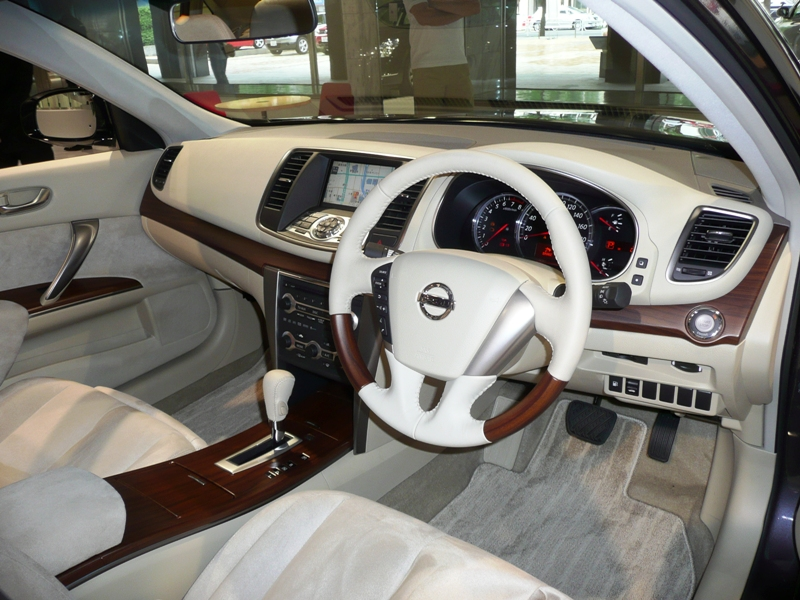 Nissan Teana.